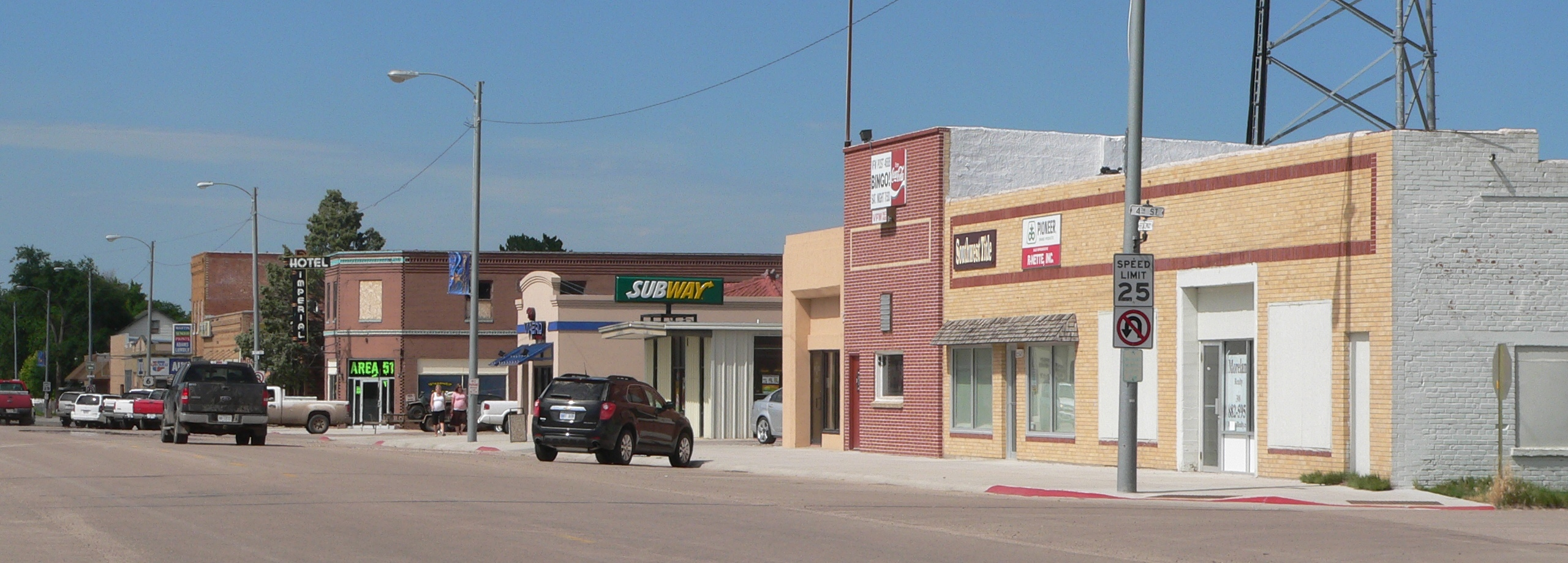 Downtown Imperial, Nebraska: east side of Broadway, looking north from about 4th Street.